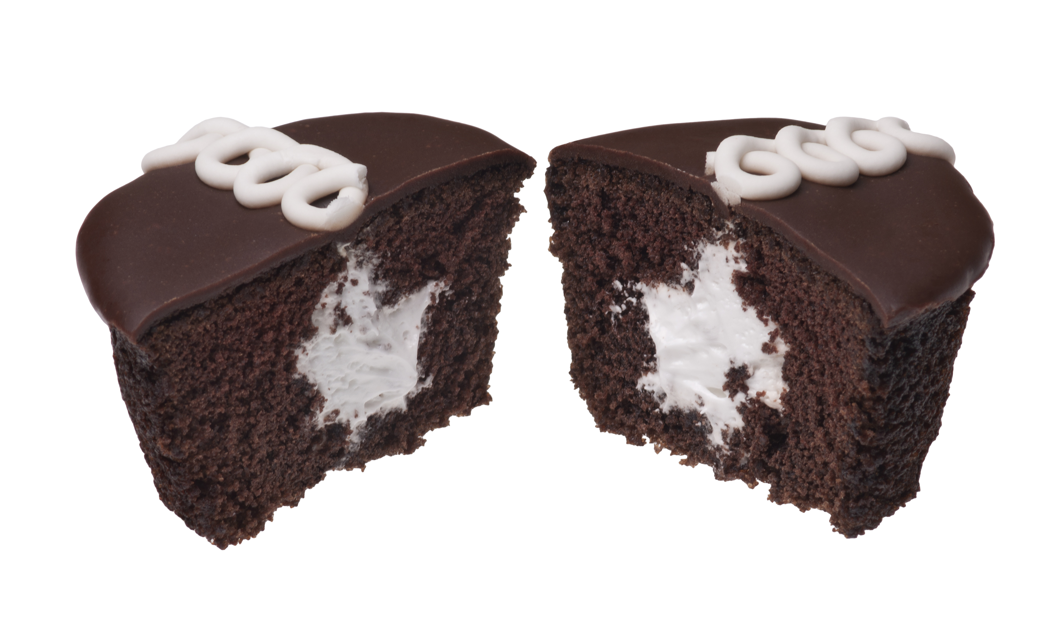 A Hostess CupCake that has been split in half, showing the cream filling.